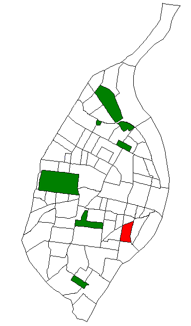 Map of St. Louis Neighborhood #22